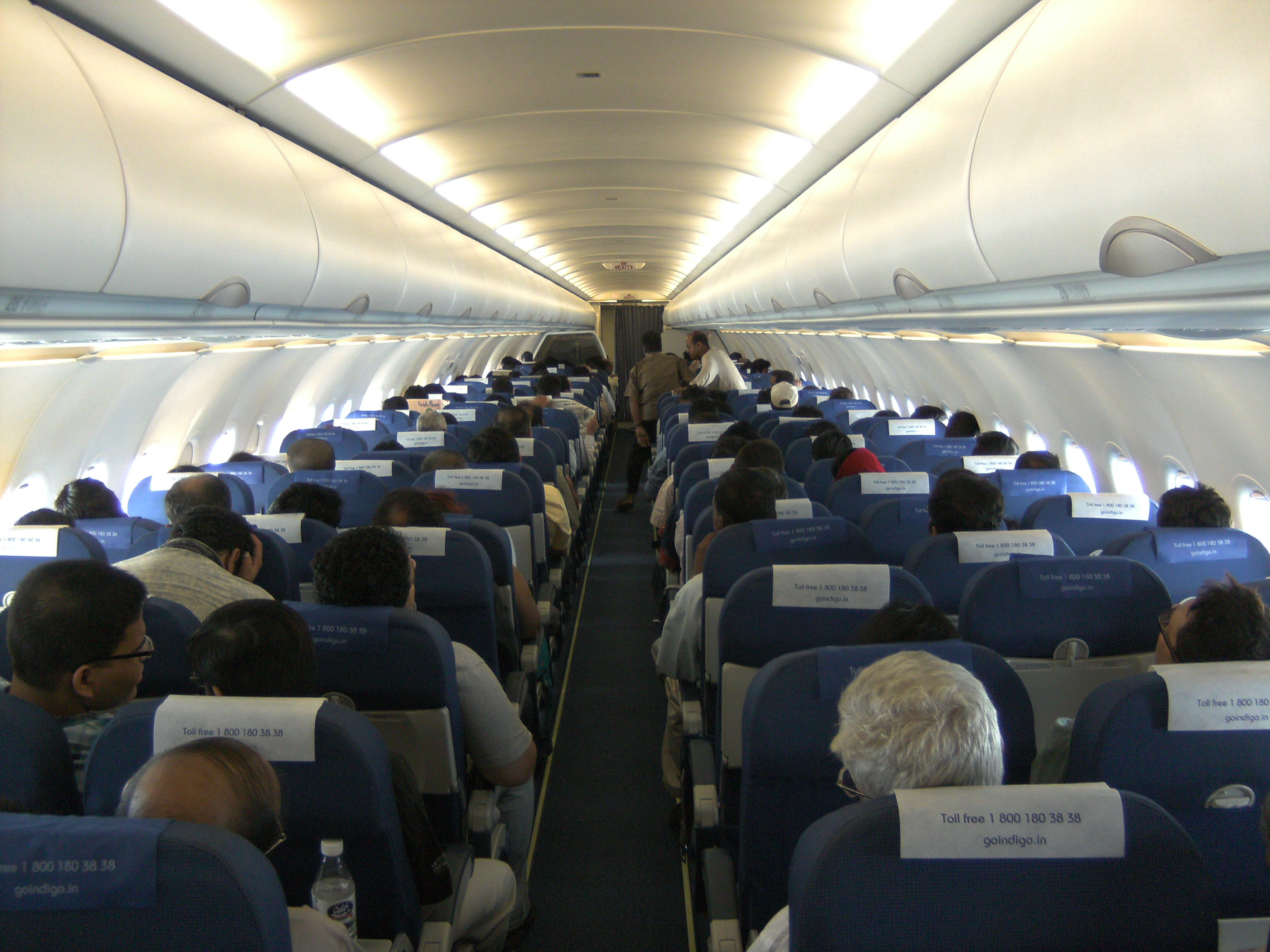 I took this picture myself while flying on this aircraft.